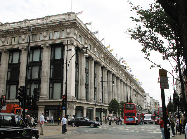 Selfridges. Probably the most famous of the department stores on Oxford Street, viewed from the junction with Orchard Street.